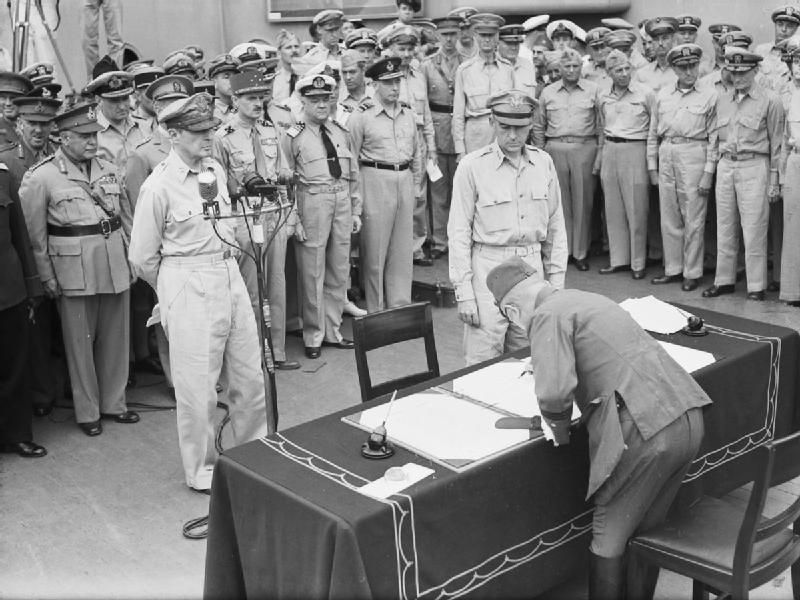 Japanese Surrender at Tokyo Bay, 2 September 1945 General Umezu Yoshijiro signs the surrender on behalf of the Imperial Japanese Army on board USS MISSOURI in Tokyo Bay.